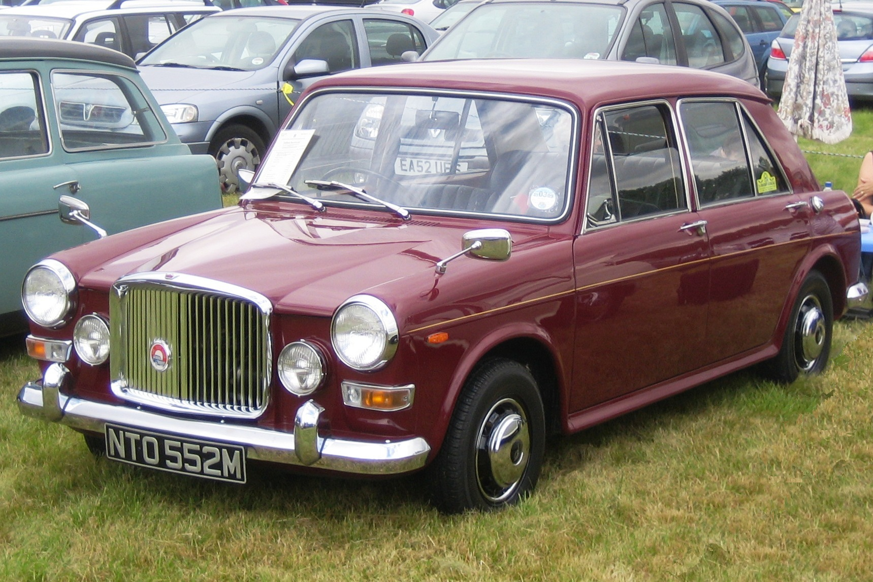 Vanden Plas Princess 1300 (ADO 16) registered ca. 1973